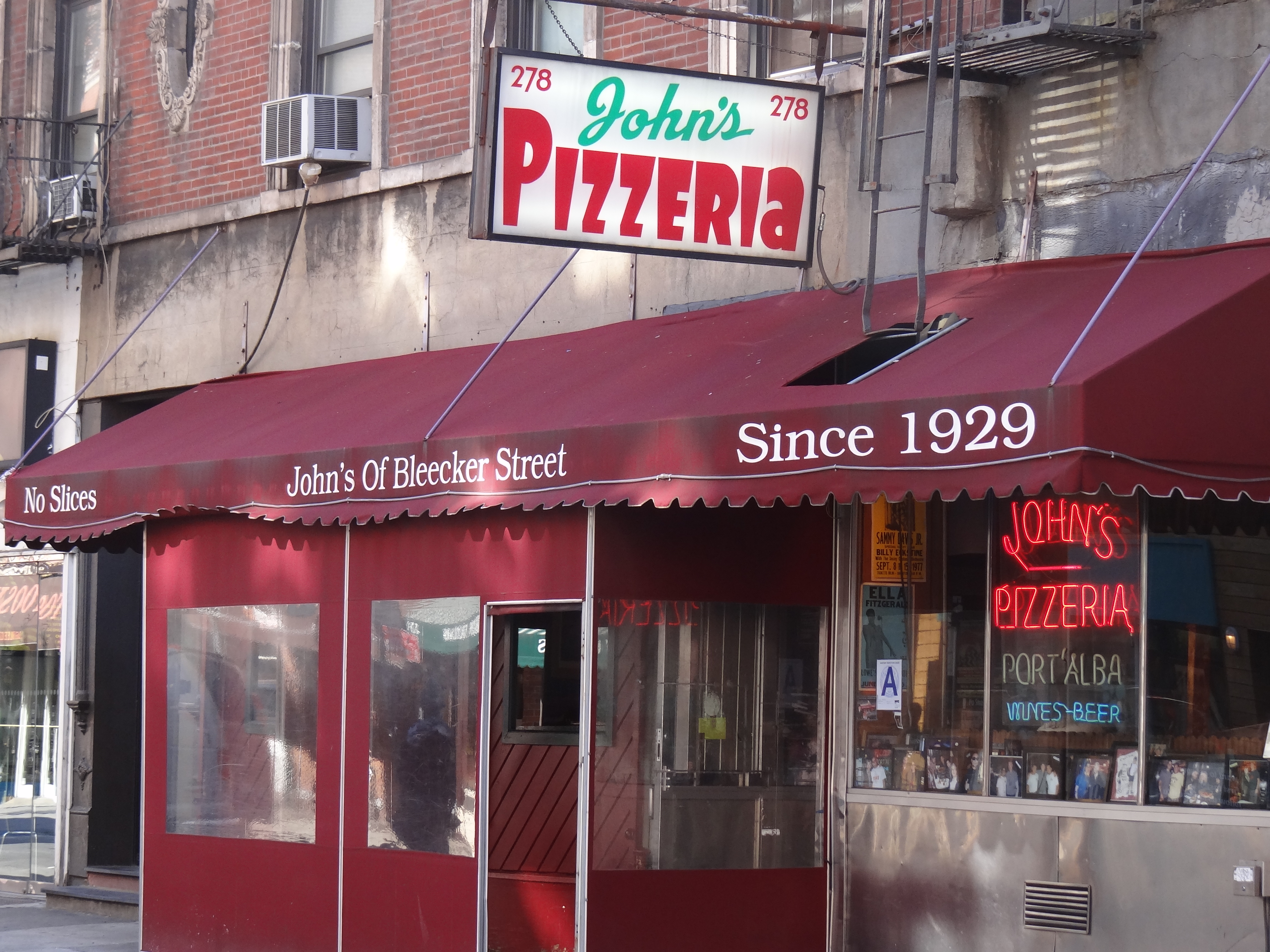 John's of Bleecker Street